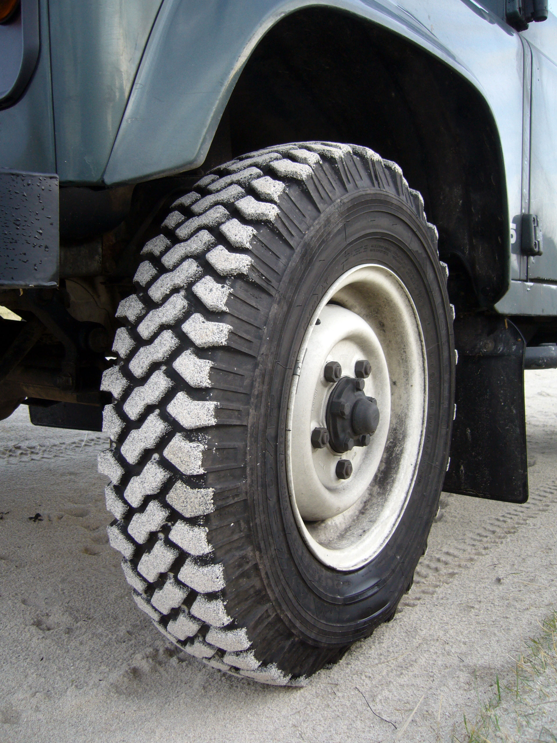 Mud terrain tyre on a Land Rover Defender.